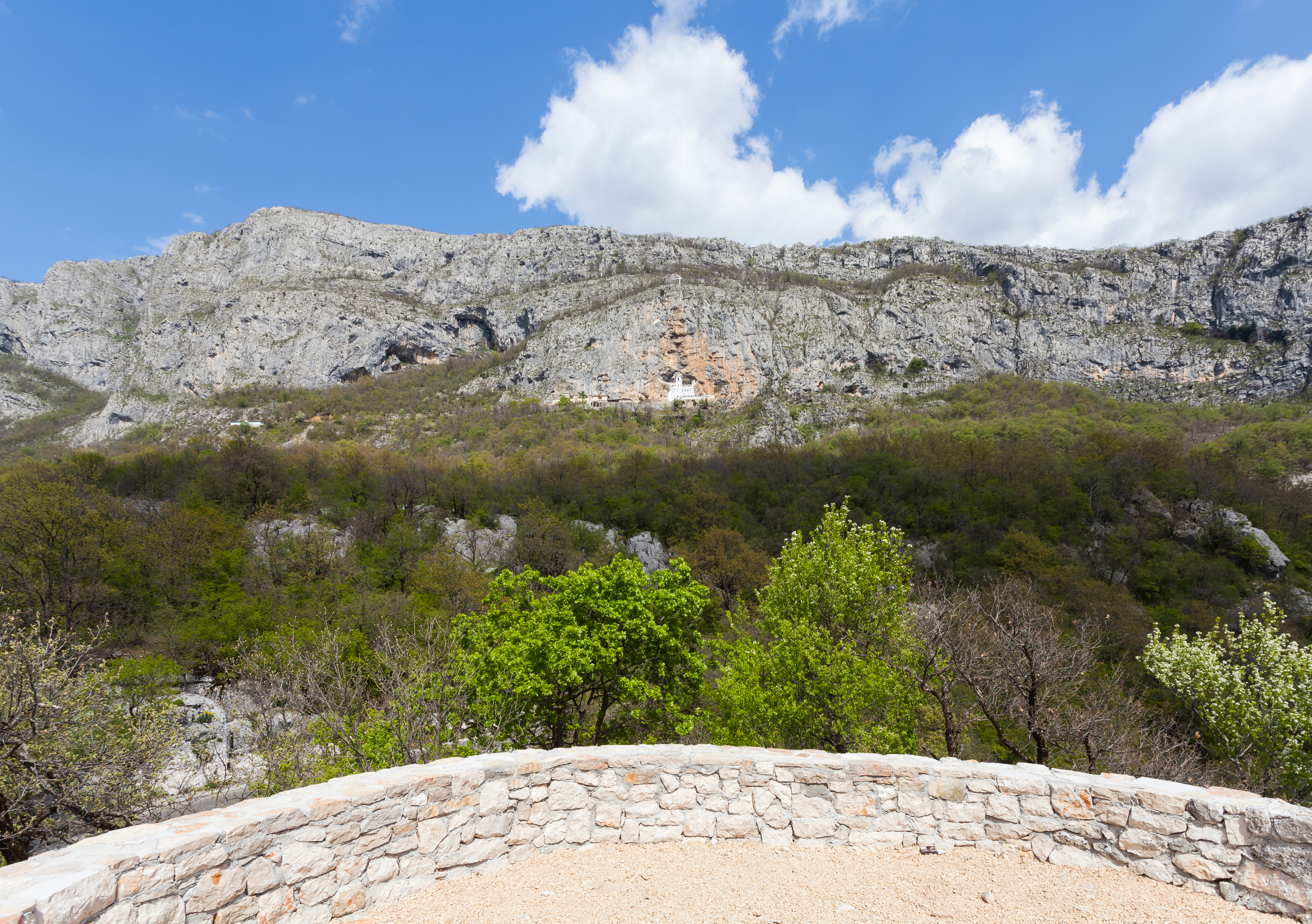 Ostrog monastery, Montenegro